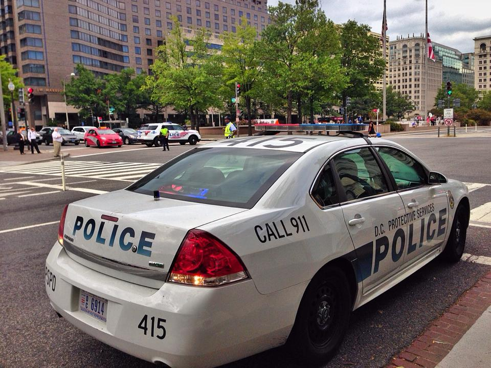 A PSPD unit holding an intersection for the Presidential Motorcade (September 2014)